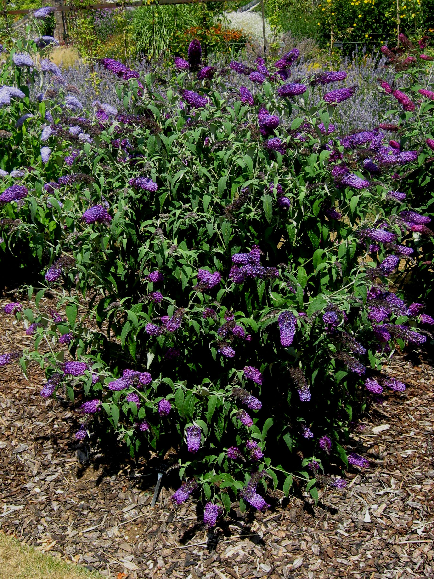 Photo of Buddleja 'Buzz Magenta', plant, Longstock Park, UK